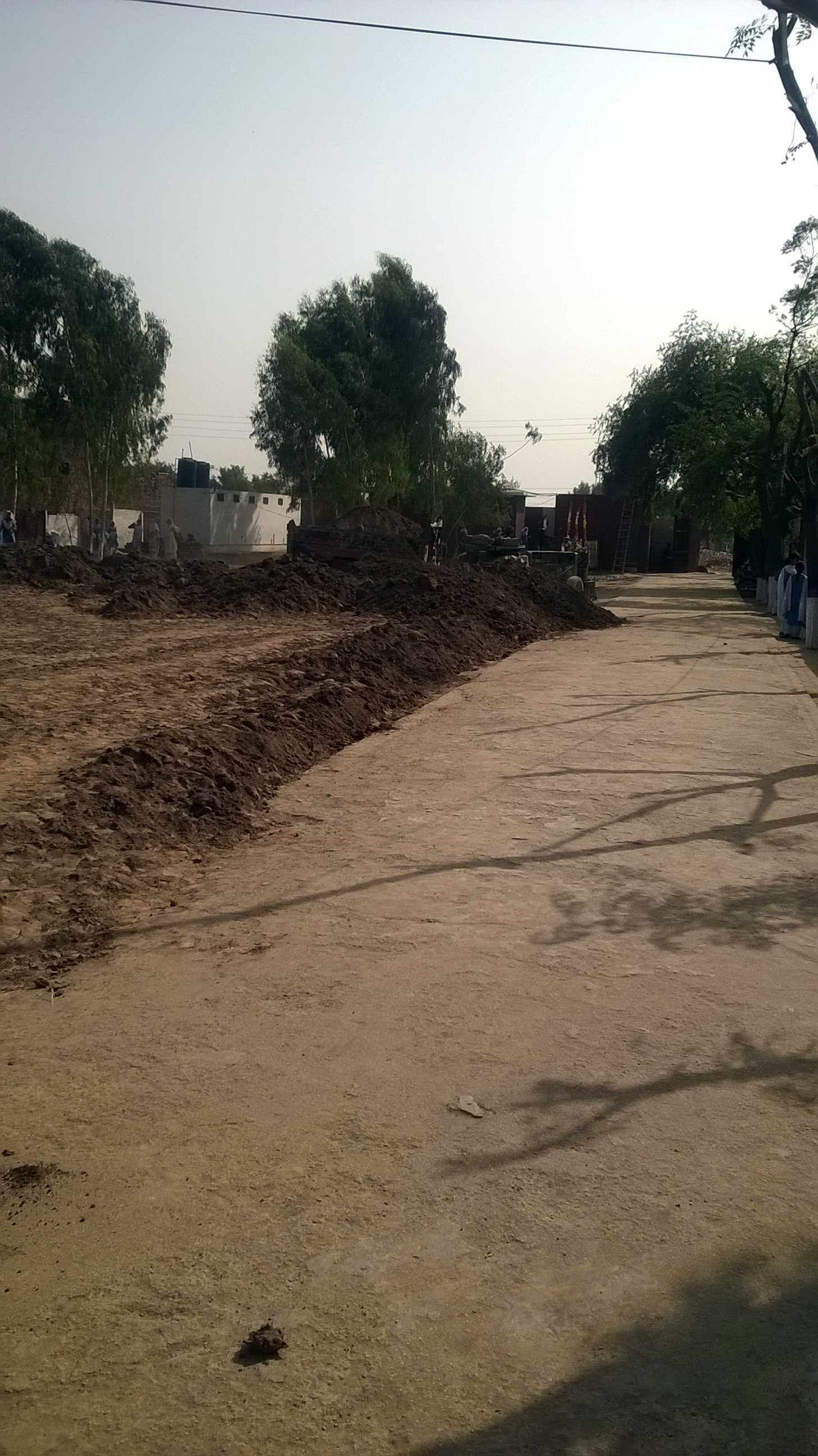 This photo was taken at Bhagowal Kalan village